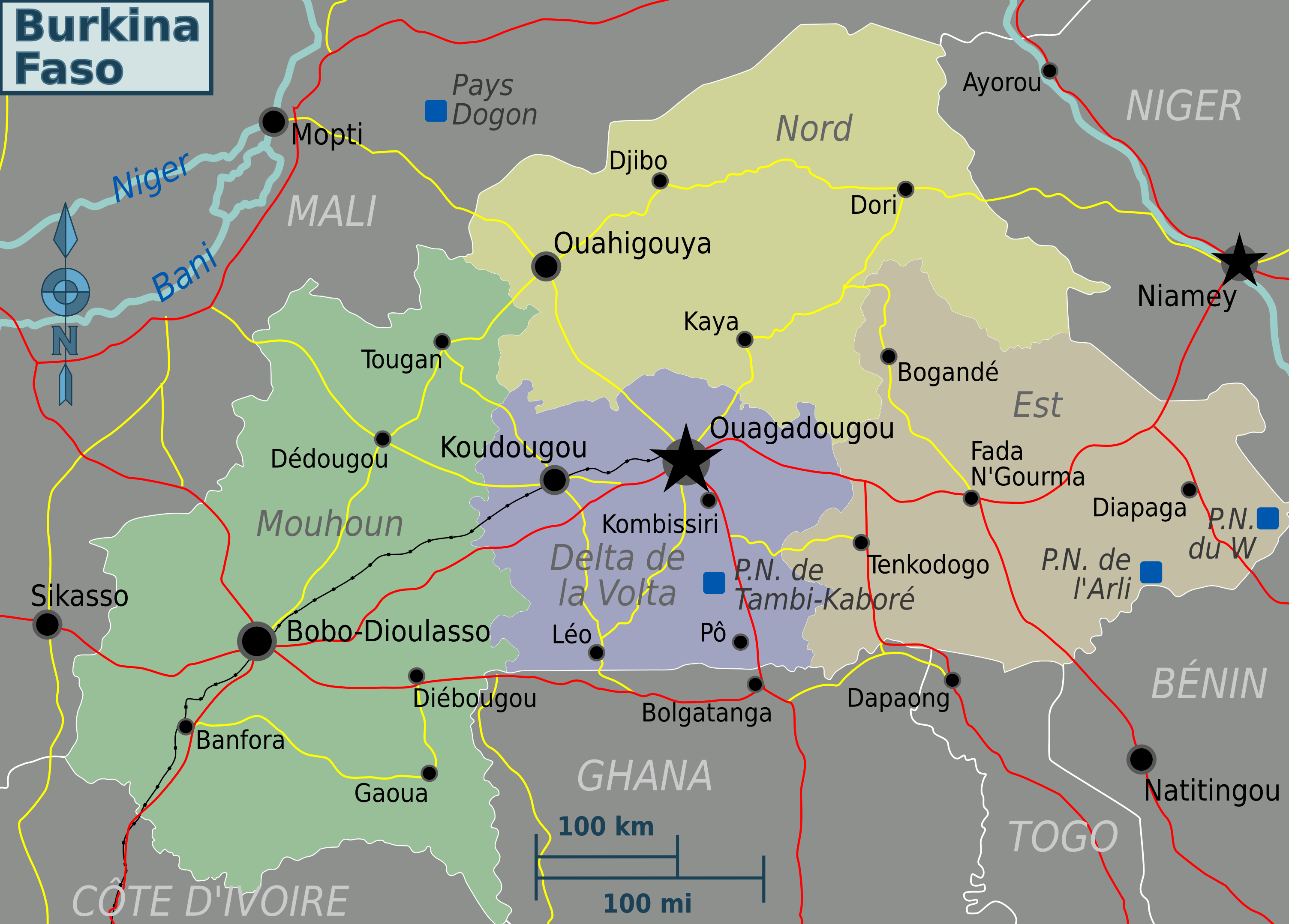 Burkina Faso map (Wikivoyage regional scheme), French version